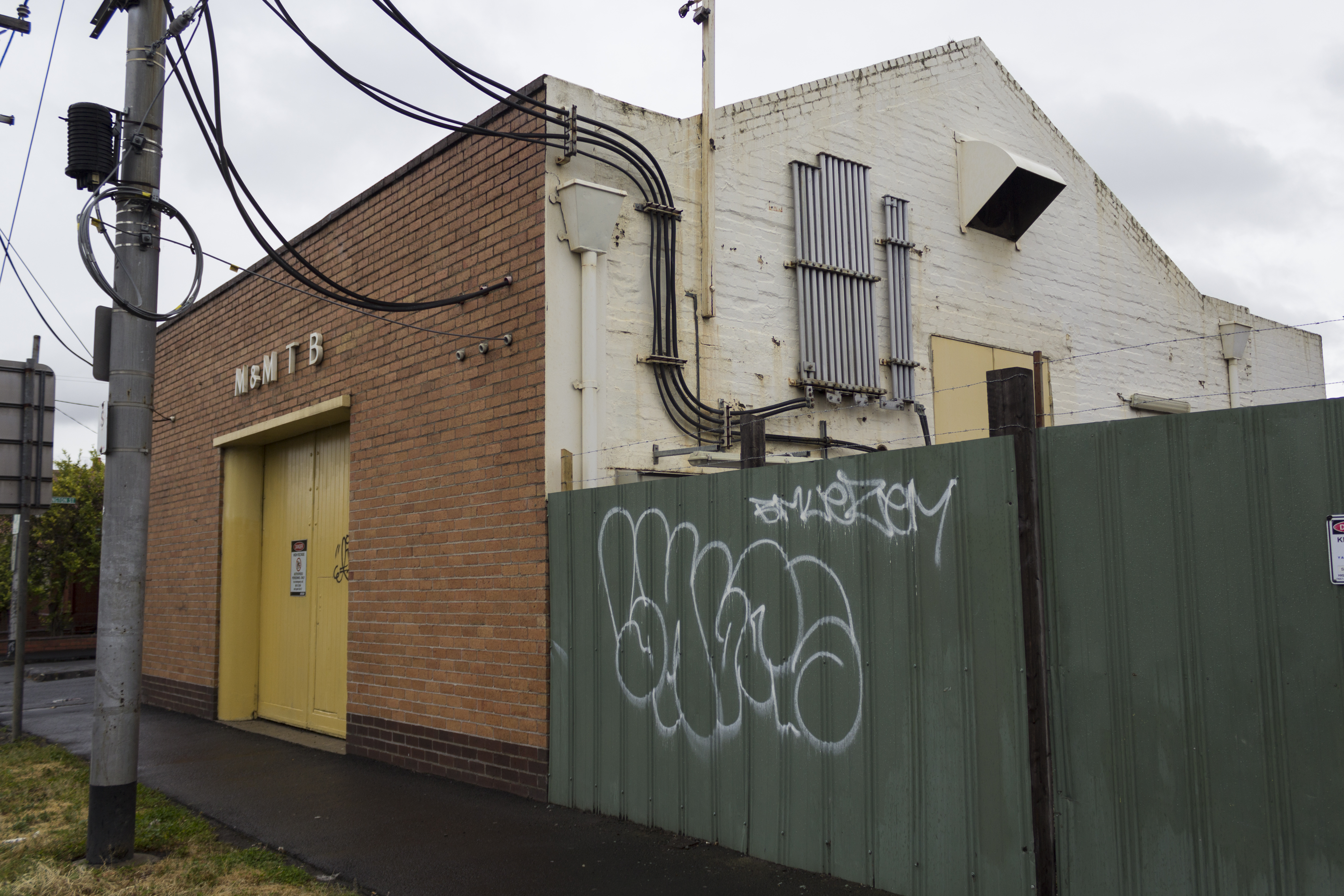 Holden St tramway substation, North Fitzroy, Melbourne. The substation is wperated by Yarra Trams, but still has MMTB embossing on the facade. Photo taken in November 2013.